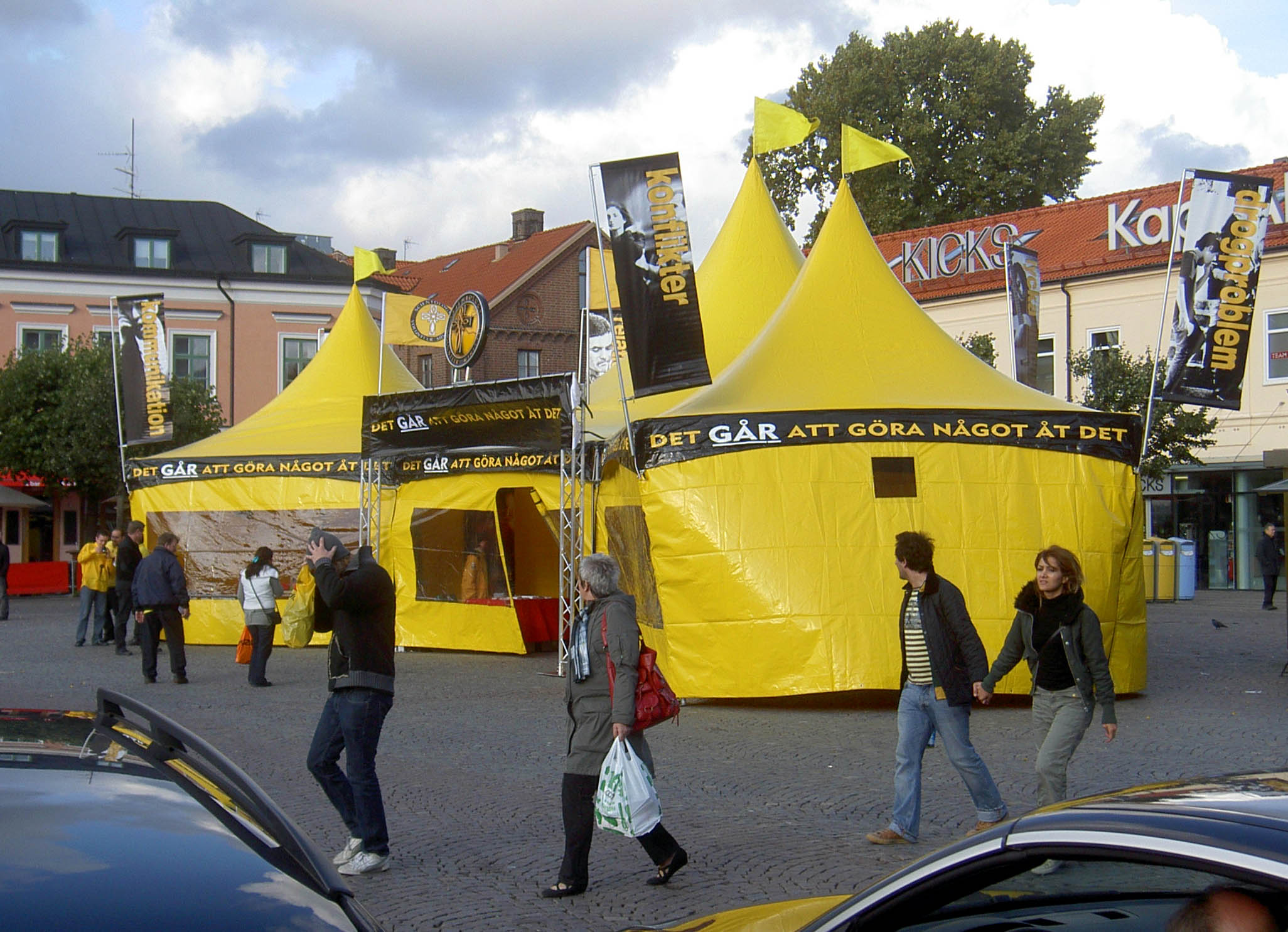 Scientology Volunteer Minister tent in Sweden with their slogan "Something can be done about it". They didn't seem to be doing any assists or stress tests in this tent, only talk to people and sell books.